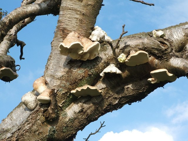 Birch Polypore (Piptoporus betulinus). The British Mycological Society recommends both "Birch Polypore" and "Razorstrop Fungus" as colloquial names for this fairly common species, whose fruiting bodies are found from summer to autumn on the dead wood of birch trees. For a view of the whole tree in context, see 1553991, where it is visible in front of the pine trees. According to "Fungi of Switzerland - Volume 2: Non gilled fungi" (Breitenbach and Kränzlin), the undersurface of the fruiting body is cream-white when young, darkening with age, and the "old fruiting bodies are often attacked by the ascomycete Hypocrea pulvinata"; for a photograph of such an infection, see 1449039. The same work notes that Birch Polypore "causes carbonizing rots"; these are also known as "brown rots". [Two important kinds of fungal rot in wood are referred to as white rots and brown rots. Both attack certain constituents of the wood (cellulose and hemicellulose). White rots also attack lignin, making the wood pale, stringy, and fibrous. Brown rots leave lignin almost untouched, making the wood darker and more brittle, and often causing cubical patterns of cracks . Brown rots are of vital importance for forest ecosystems: they leave humus as their residue, and it is largely due to this residue that conifer seedlings often sprout along the line where a fallen conifer lay; see "Introductory Mycology" (Alexopoulos/Mims/Blackwell).]